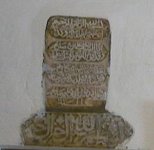 entrance to El Atabi's grave